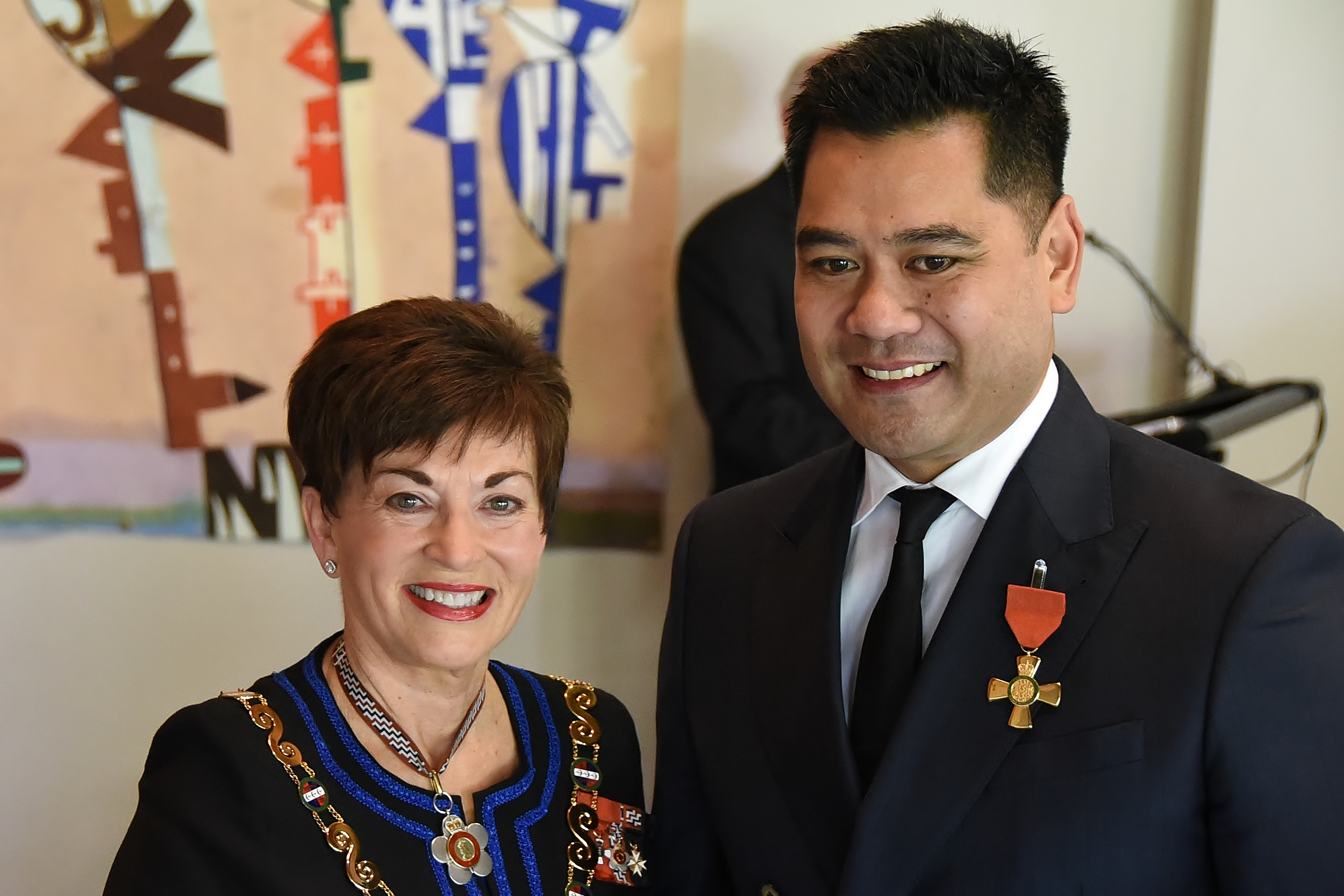 Neil Ieremia, after his investiture as ONZM, for services to dance, by the governor-general, Dame Patsy Reddy, on 16 August 2017